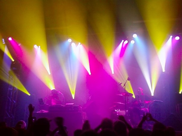 Pretty Lights concert at the Fox Theatre in Boulder,Colorado.